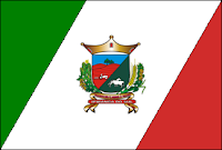 Flags of the city of Ipiranga do Sul, Rio Grande do Sul, Brazil.